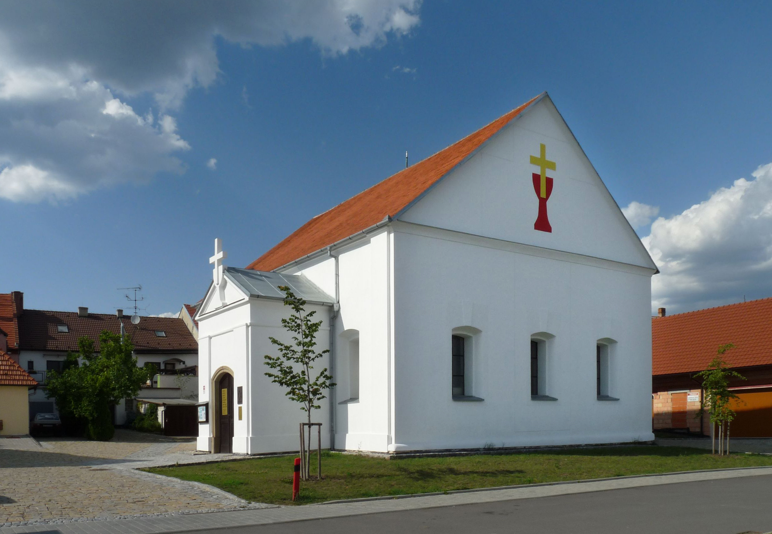 Former synagogue in the town of Rousínov, Vyškov District, Czech Republic.